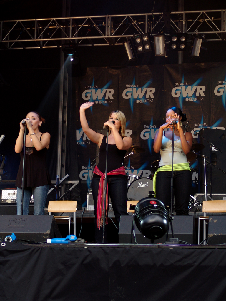 Sugababes, Bristol Ashton Court